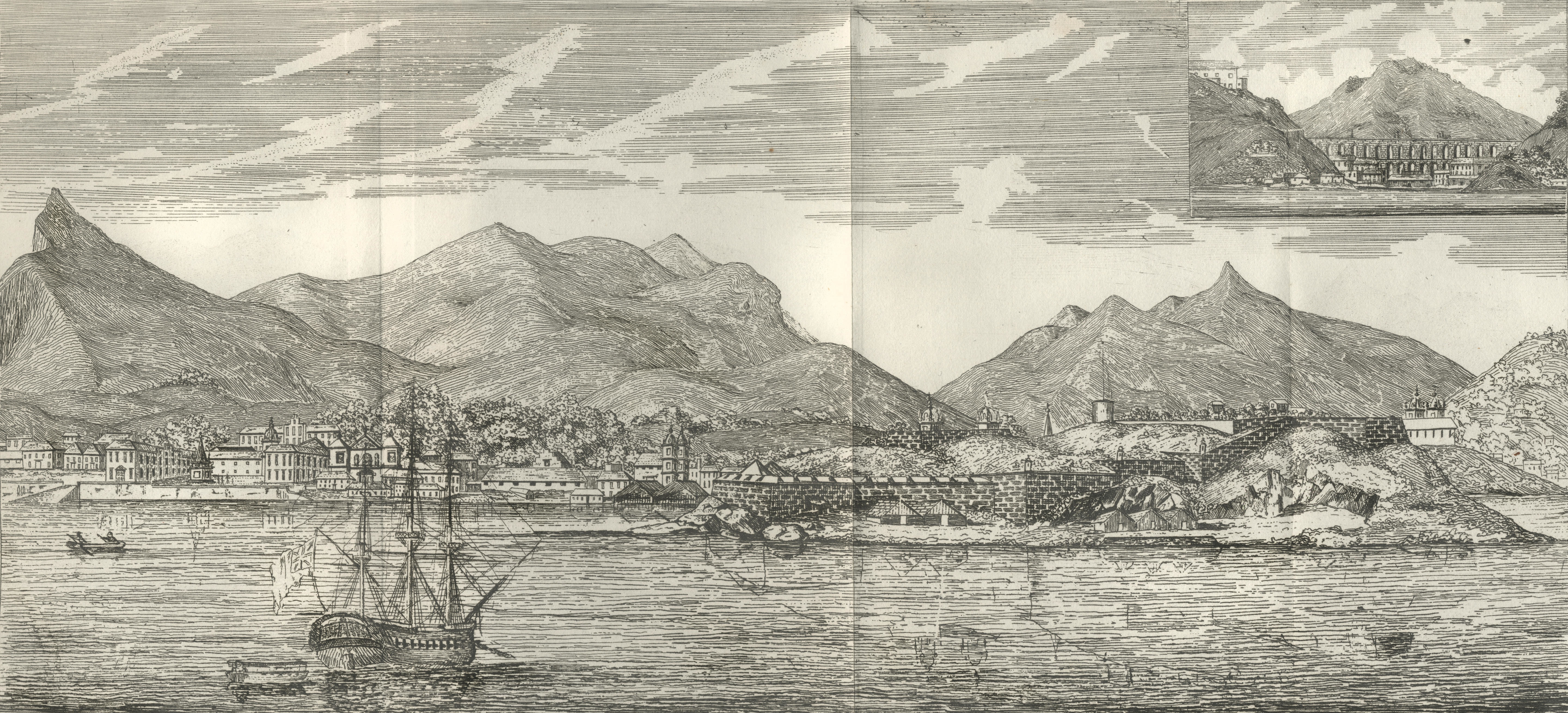 Taken from: SHILLIBEER (JOHN) A Narrative of the Briton's Voyage to Pitcairn's Island; including an Interesting Sketch of the Present State of the Brazils and of Spanish South America, second edition, 12 etched plates (2 folding including view of Rio de Janeiro, one in sanguine), [Ferguson 697; Hill 1563; Sabin 80484], 8vo, Law & Whitaker, 1817, See page 8. [1] Drawn and etched by John Shillibeer Lt RM of Walkhampton, book dedicated to officers of the corps of Royal Marines and Royal Marine Artillery.[2]